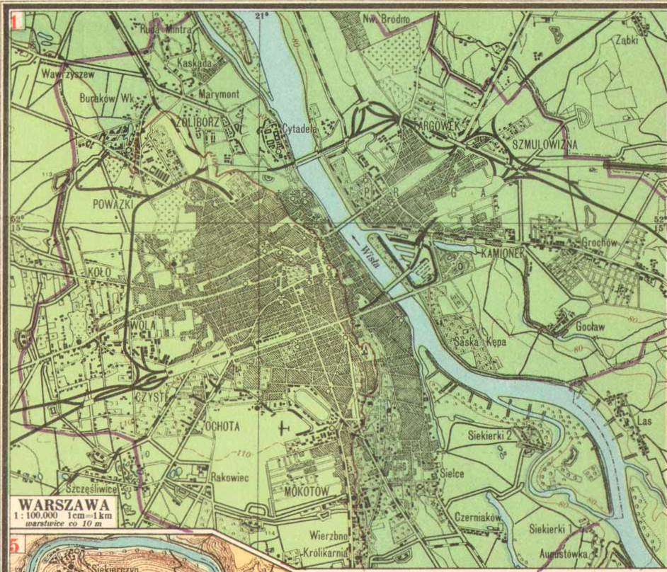 Republic of Poland (Second Republic), population density